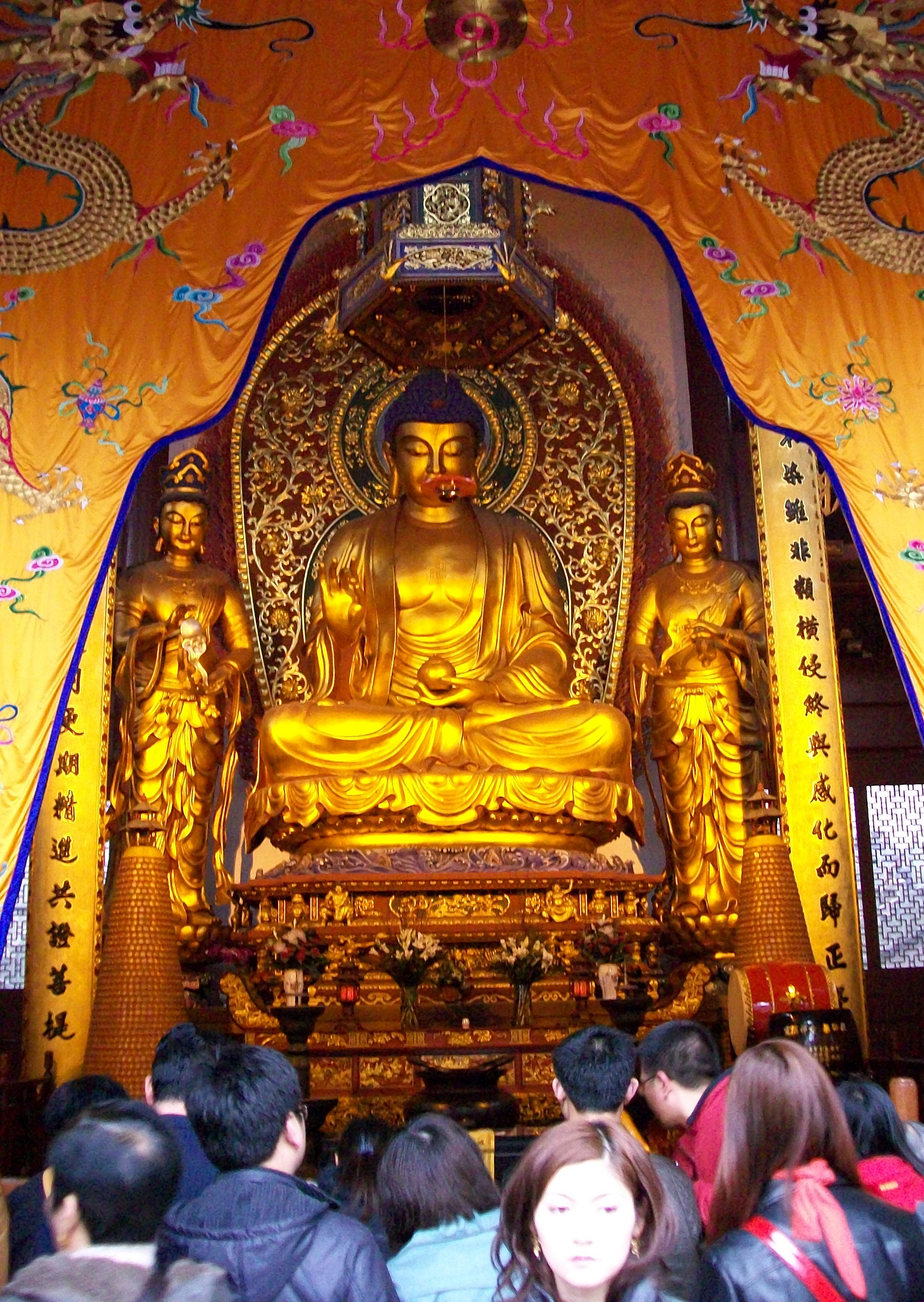 Bhaisajyaguru, the Medicine Buddha, along with the attendant bodhisattvas Suryaprabha and Candraprabha. Lingyin Temple, Hangzhou city, Zhejiang province, China.